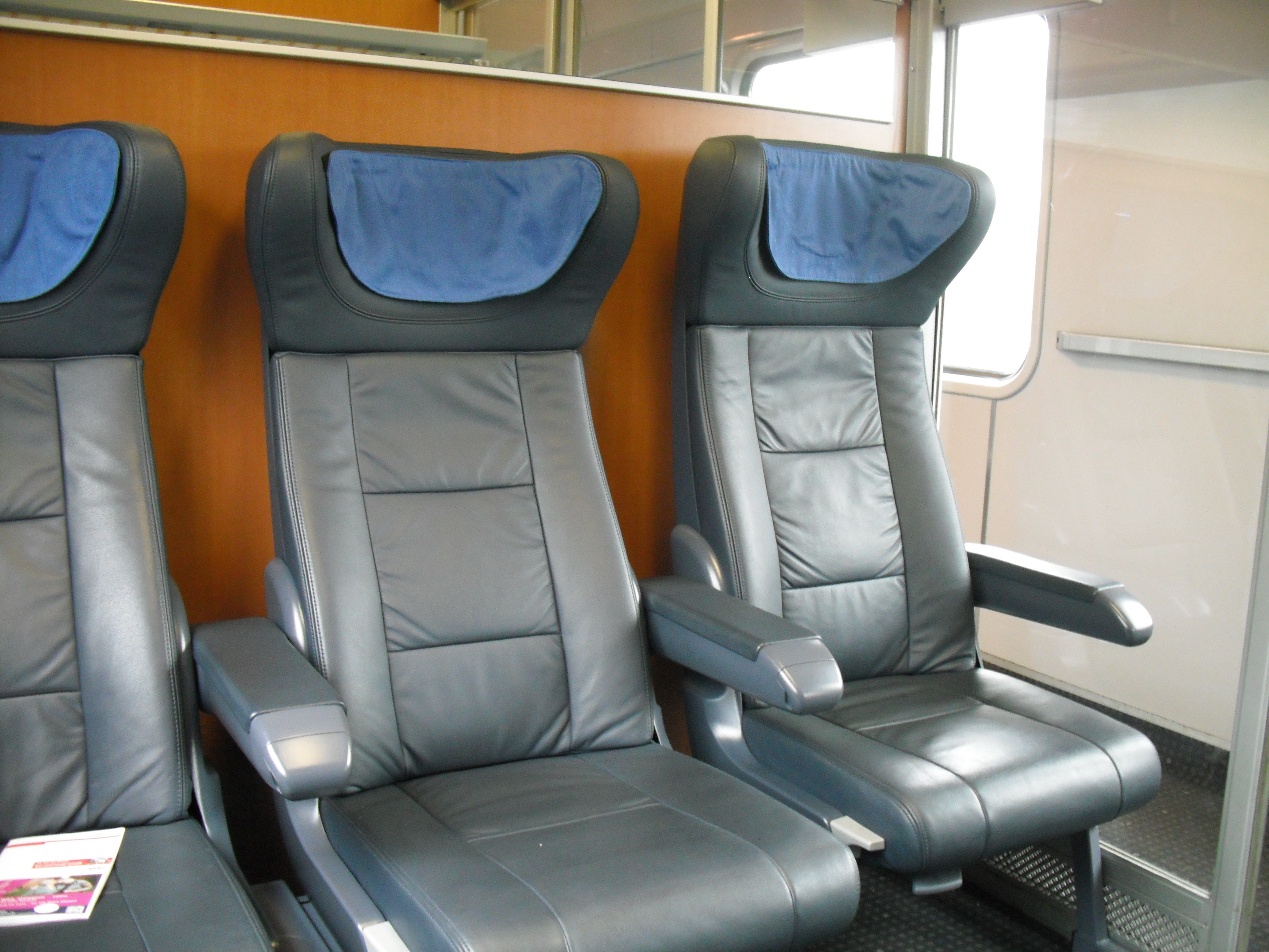 Interior of a refurbished Deutsche Bahn Intercity first class compartment coach (Avmz)